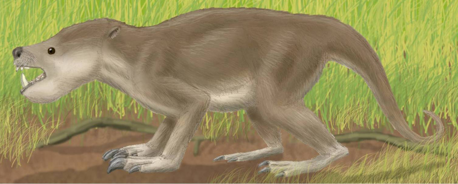 Crop of file in filename